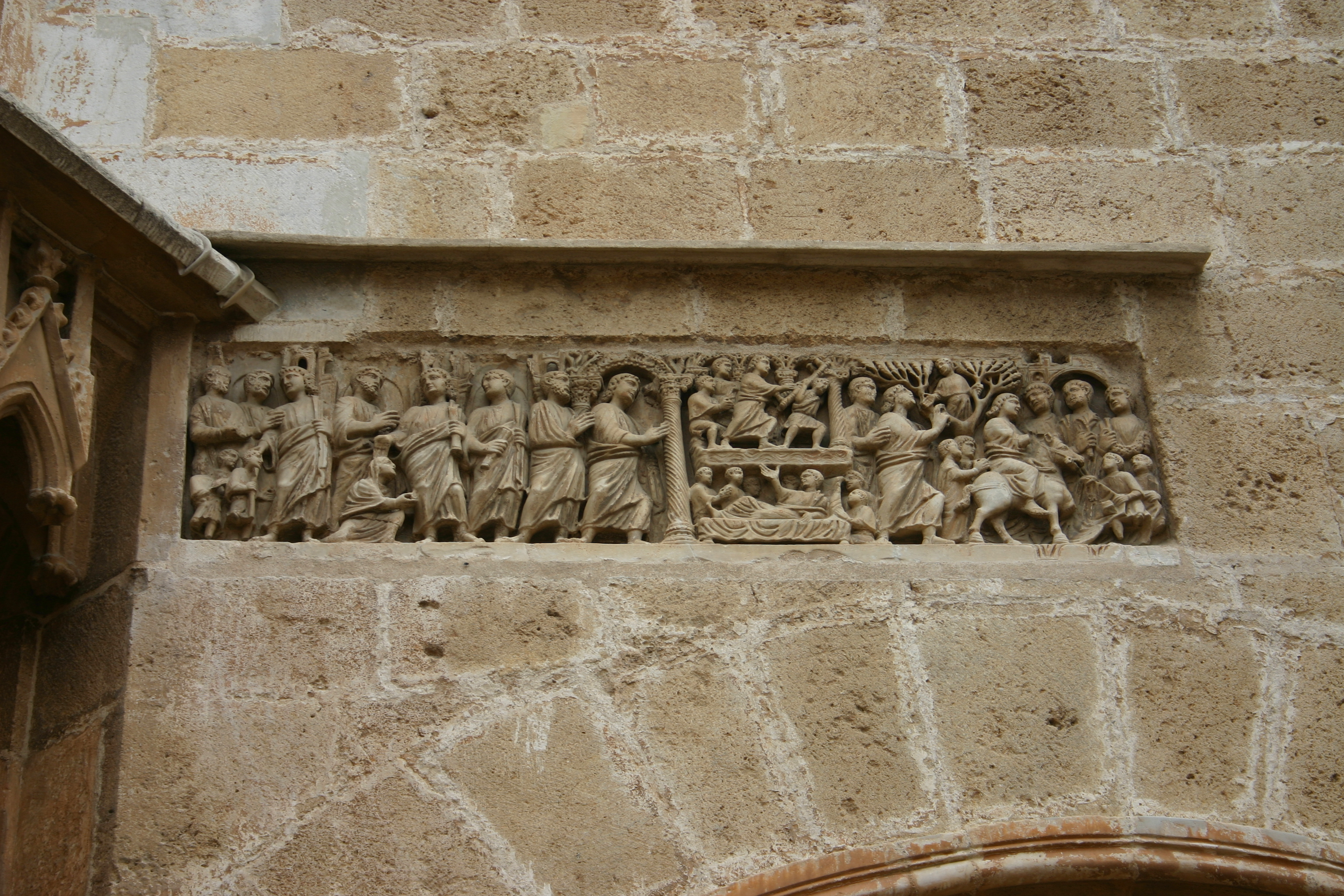 Cathedral of Tarragona, Catalonia (Spain).